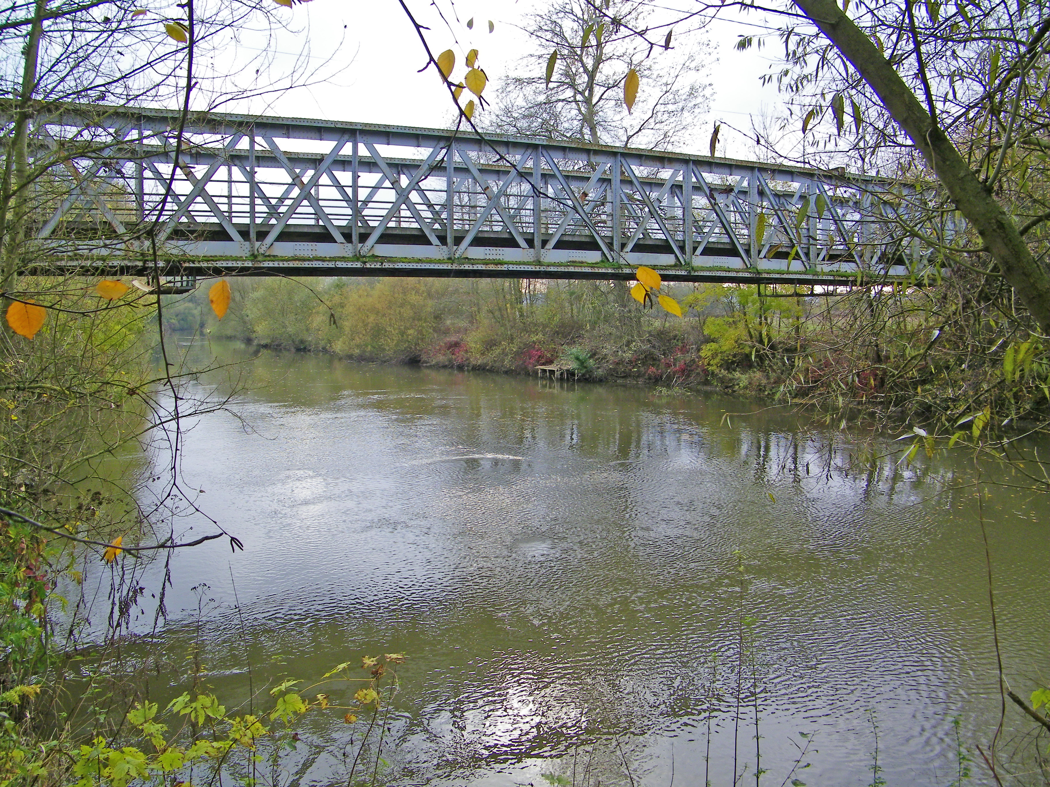 The bridge of Montmacq